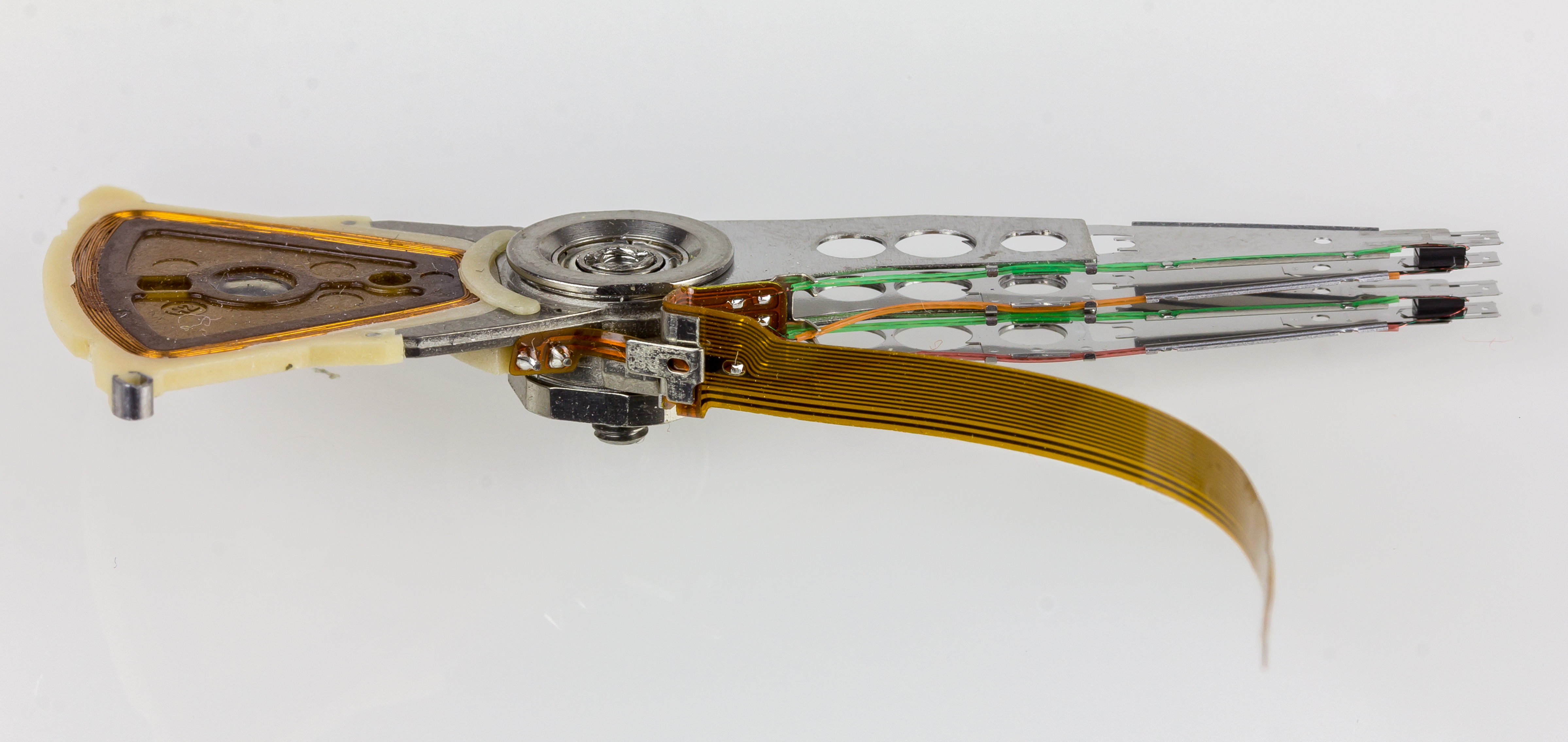 WD Scorpio Blue - 160 GB - WD1600BEVT-22ZCT0 - heads